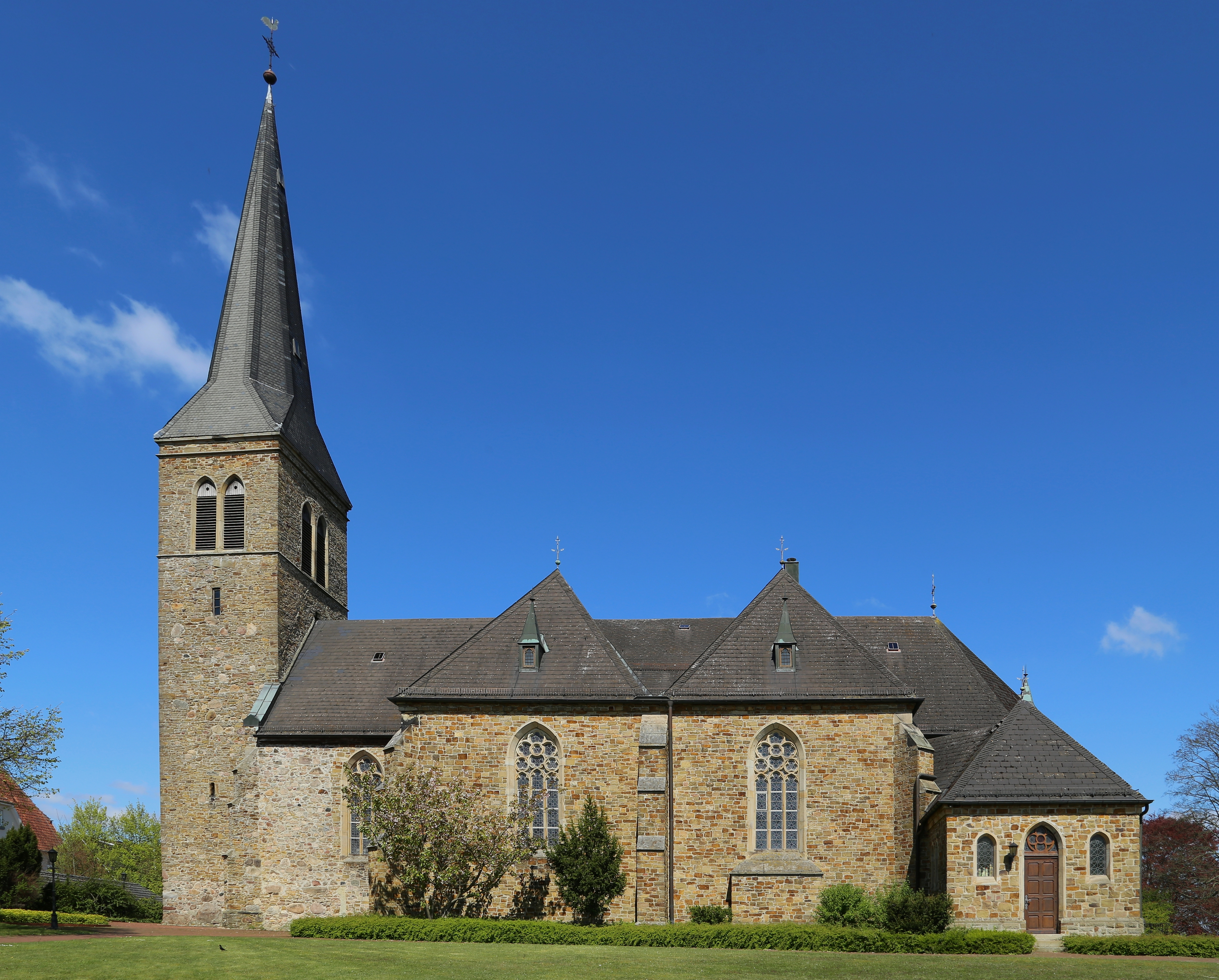 Roman Catholic St Servatius Church in Berge, Samtgemeinde Fürstenau, Landkreis Osnabrück, Lower Saxony, Germany.